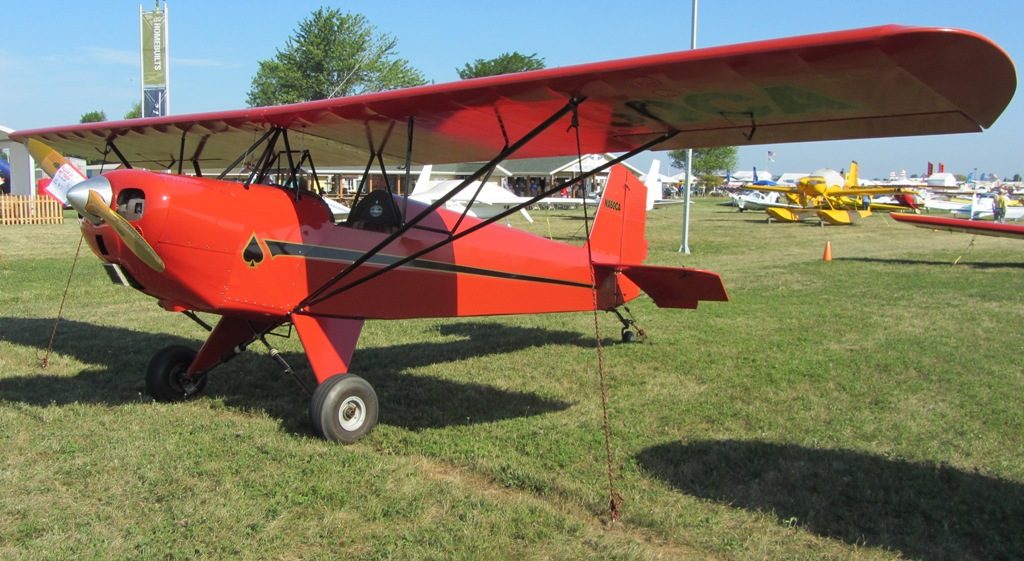 Baby Ace